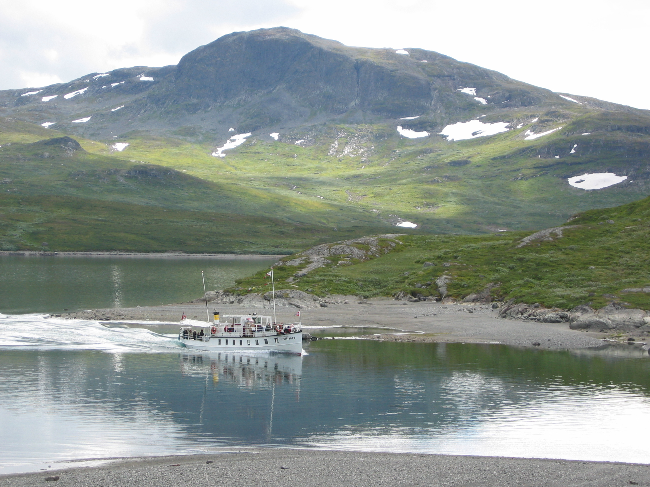 Boat on Bygdin